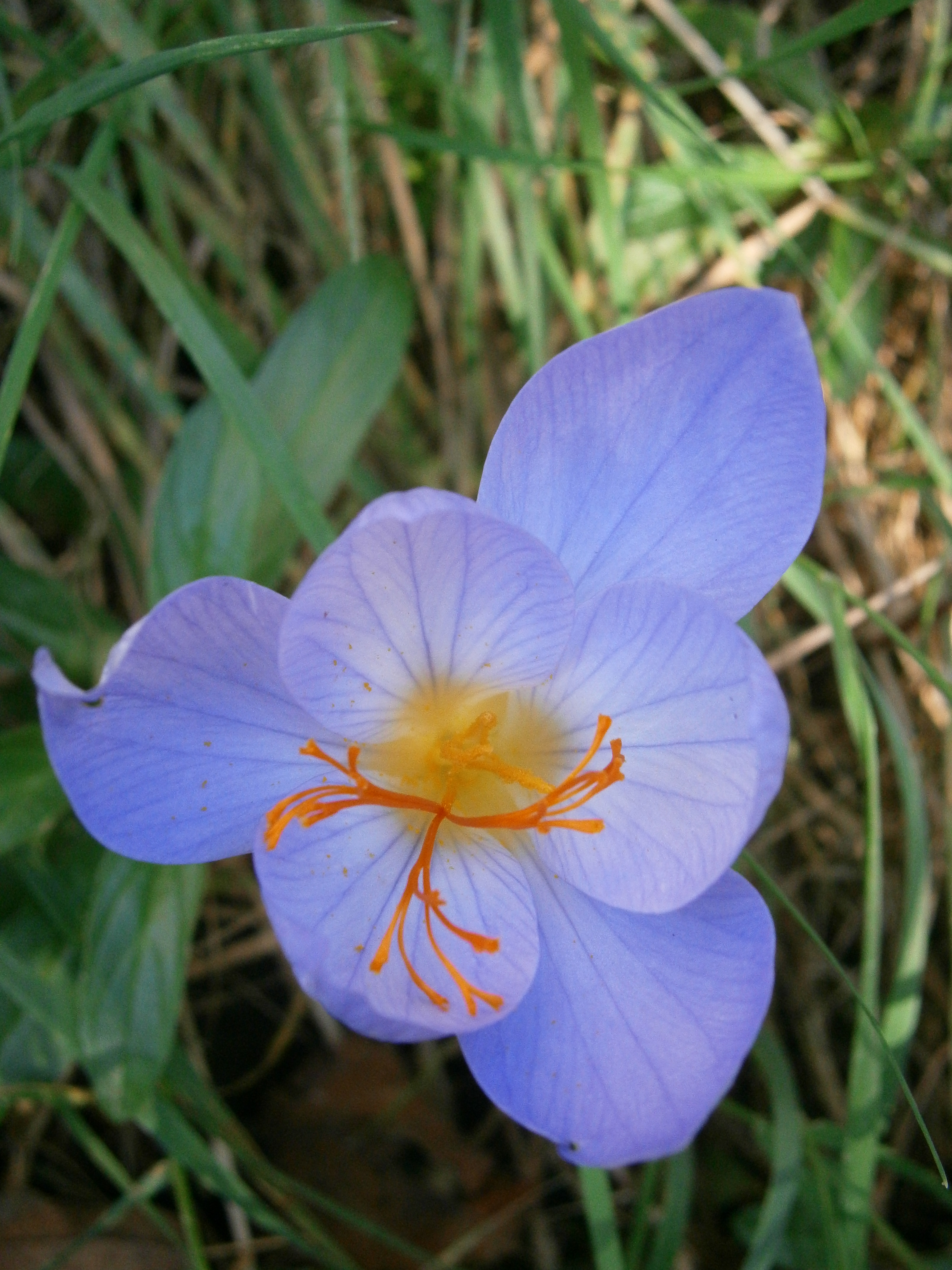 Crocus speciosus - close-up